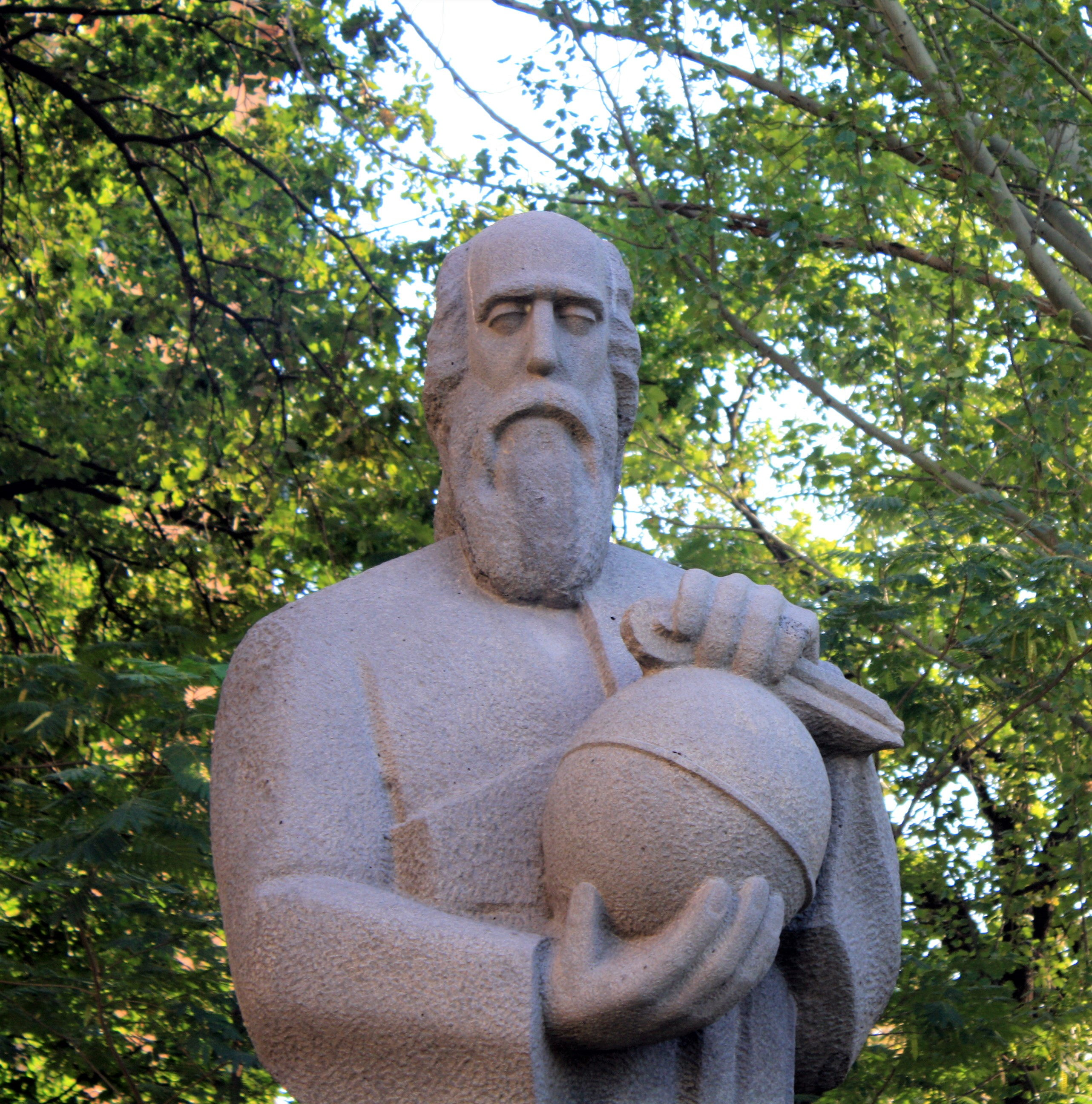 Անանիա Շիրակացի